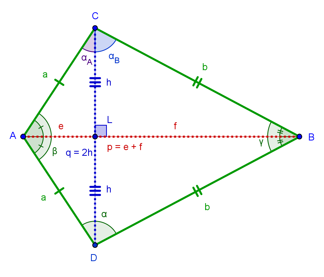 Quarilateral kite, angles